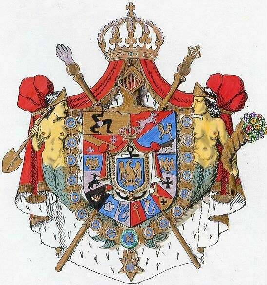 Arms of the Kingdom of Naples 1808